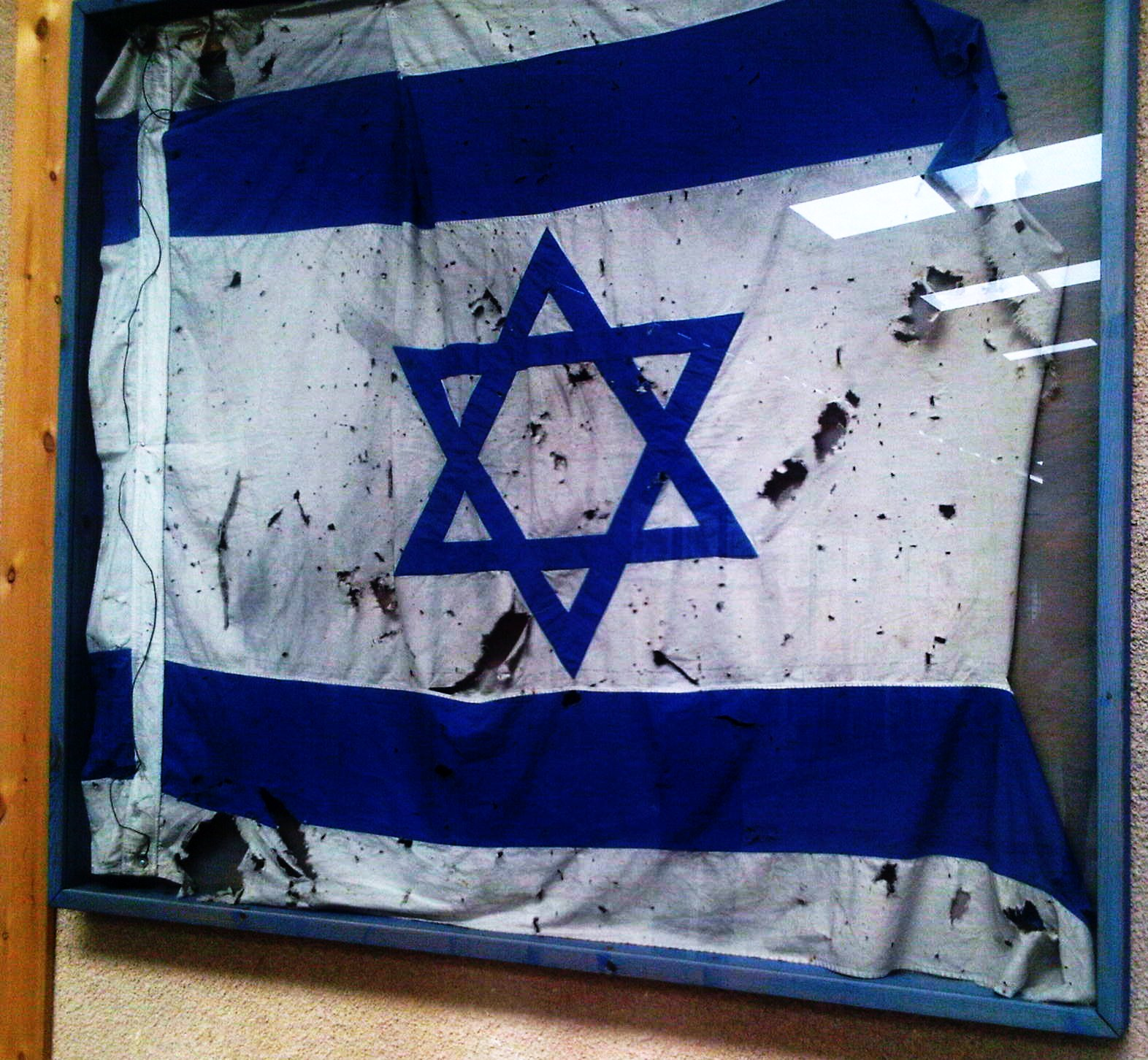 Photograph of flag of Israel from Fort Budapest. Israeli flag flown at Fort Budapest throughout Yom Kippur War, currently preserved in the Israeli Armored Corps museum at Latrun.